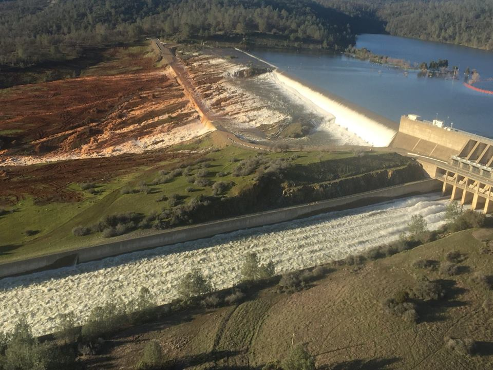 Water overflowing the auxillary spillway of Oroville Dam, CA.